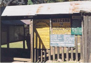 Sagarmatha National Park, Nepal - entrance sign The image copyright owner, Craig Knelsen, hereby agrees to the licensing terms of the GFDL for use on Wikipedia. The owner, Craig Knelsen, retains copyright to this image. This picture was taken in October 2002 at the southern entrance of the park near Mondzo, Nepal. RedWolf 08:58, Nov 22, 2003 (UTC) The image has been scaled down to reduce the file size by almost 50% to reduce page loading time for non-broadband users. RedWolf 05:22, Nov 27, 2003 (UTC)